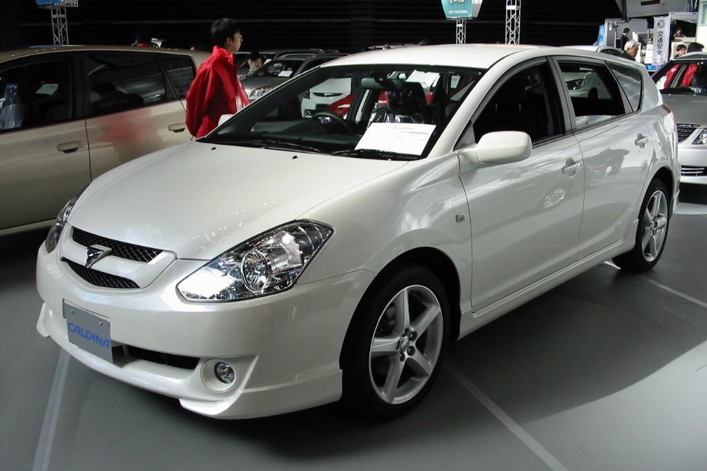 Toyota_Caldina(2002) photographed in the all toyota Motor Show in Saitama, Japan.